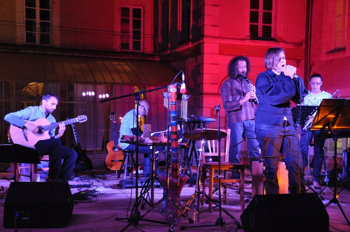 Rêverie in concert at Gresillon castle, in France, on the 11th of August 2011